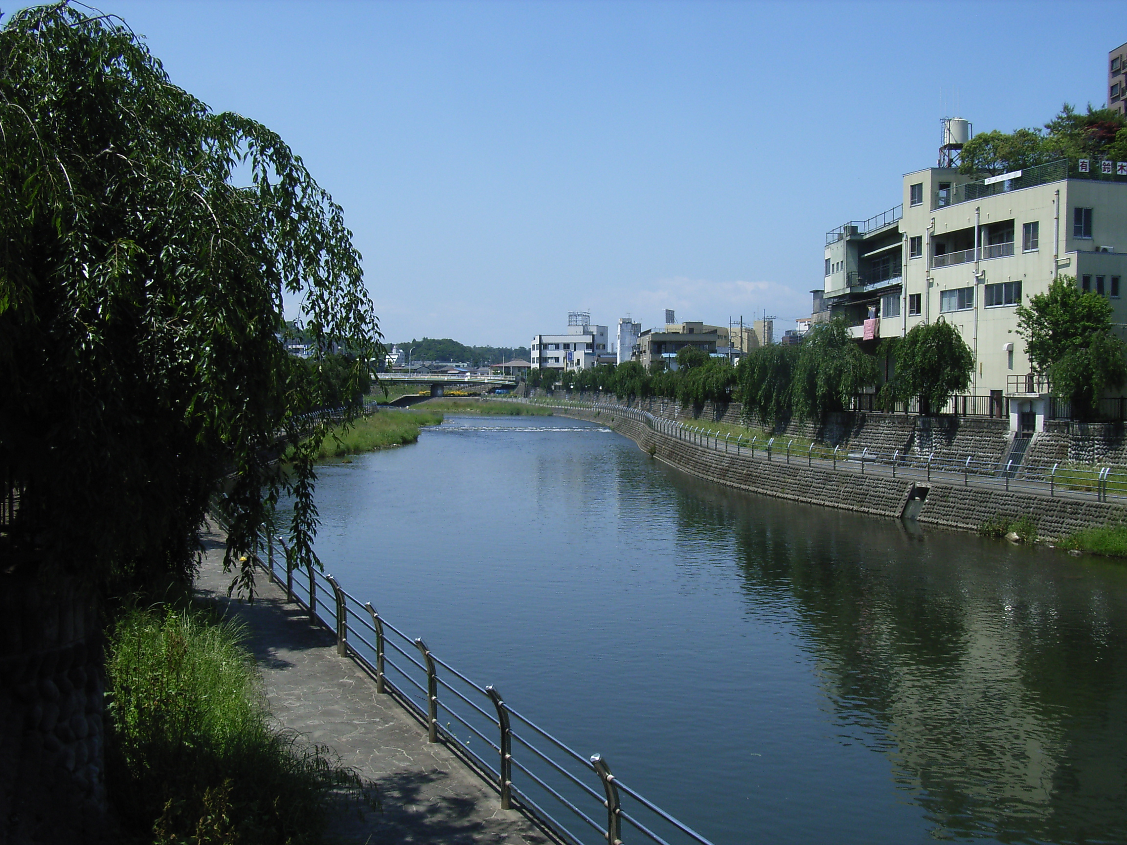 Ta River (Tagawa). Utsunomiya, Tochgi prefecture, Japan. From the Saiwai Bridge.